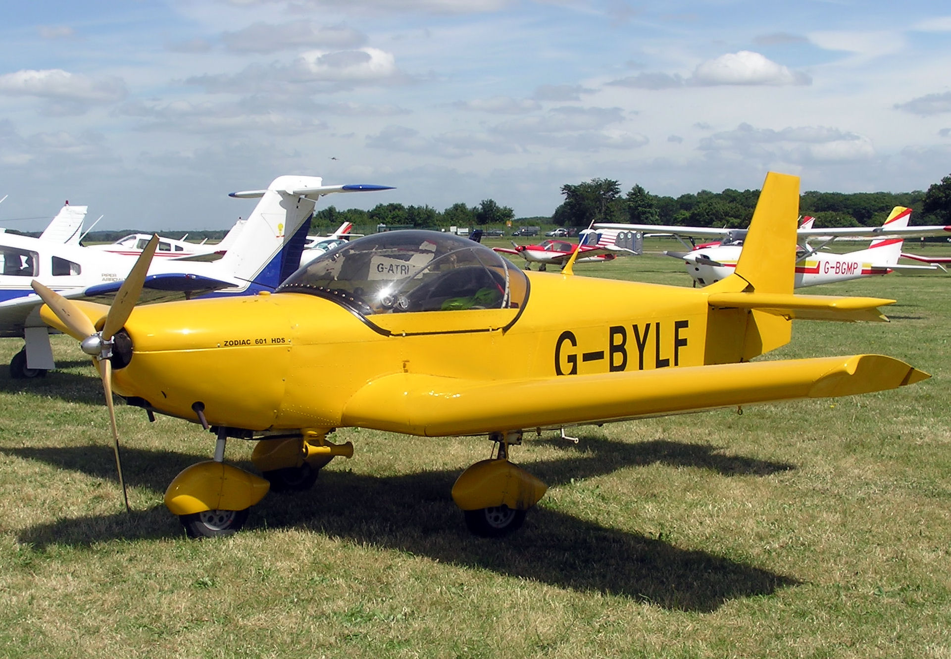 Zenair CH 601 HDS Zodiac (G-BYLF) at a Popular Flying Association Rally at Kemble Airport, Gloucestershire, England.